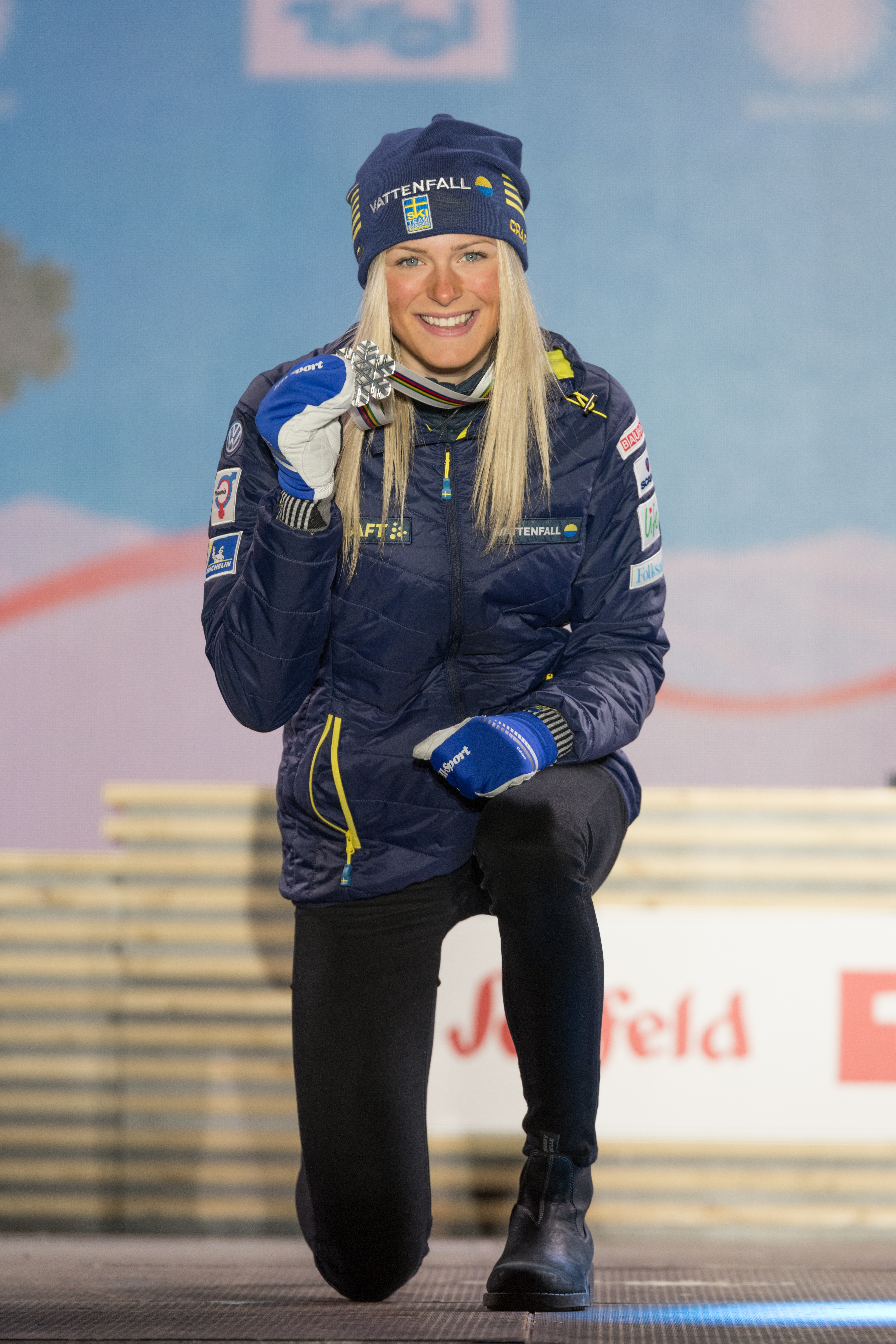 FIS Nordic Wolrd Ski Championships Seefeld 2019 - Medal Ceremony at the Medal Plaza. Picture shows Frida Karlsson (SWE).